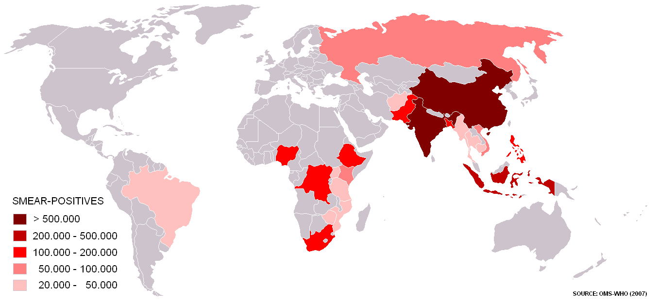 Map of the 22 HBCs (high-burden countries) that account for approximately 80% of all new TB cases arising each year. Source: WHO Report 2009 - Global Tuberculosis Control, Table 1.2 "Estimated epidemiological burden of TB in 2007"